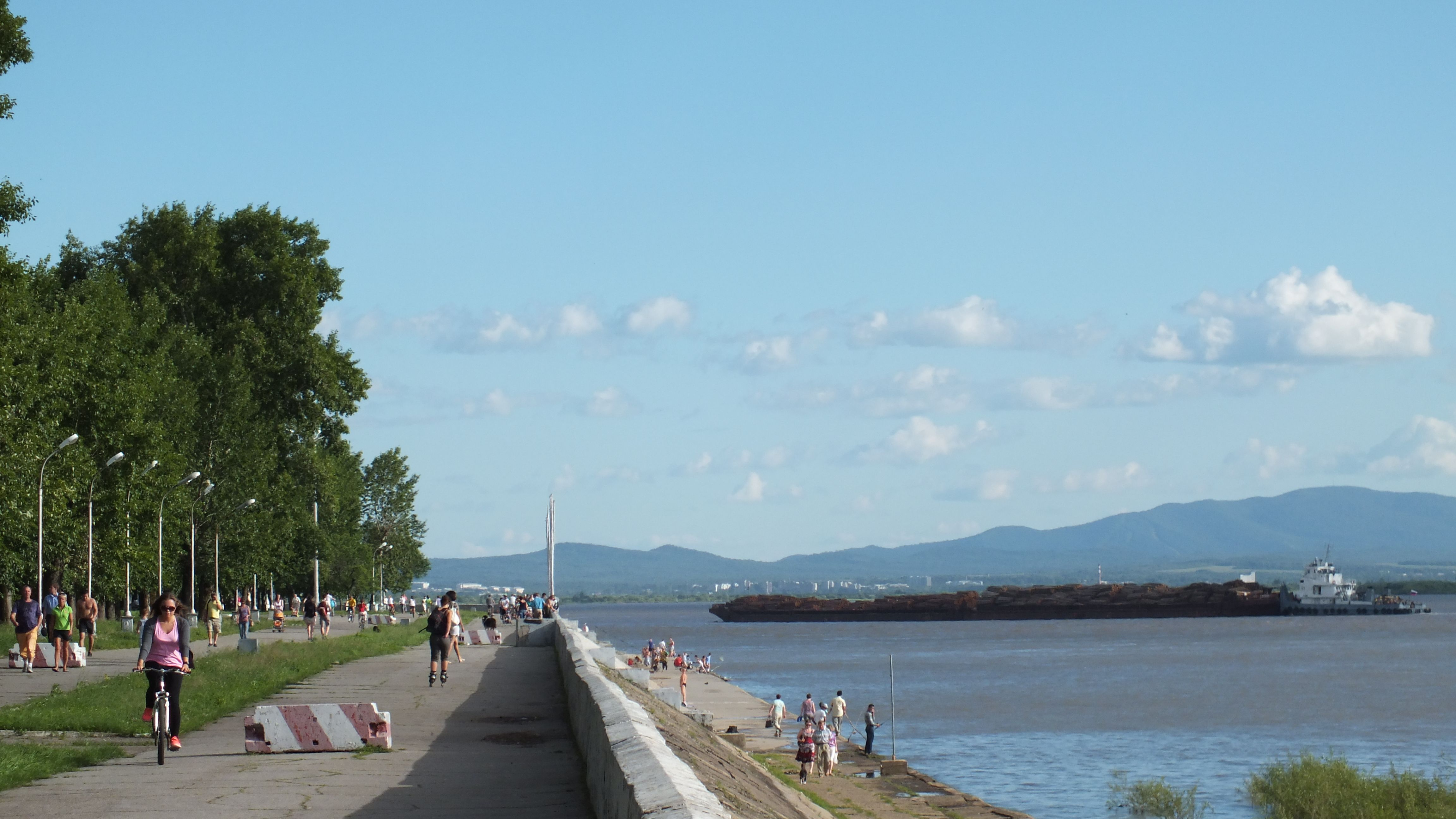 Amur River